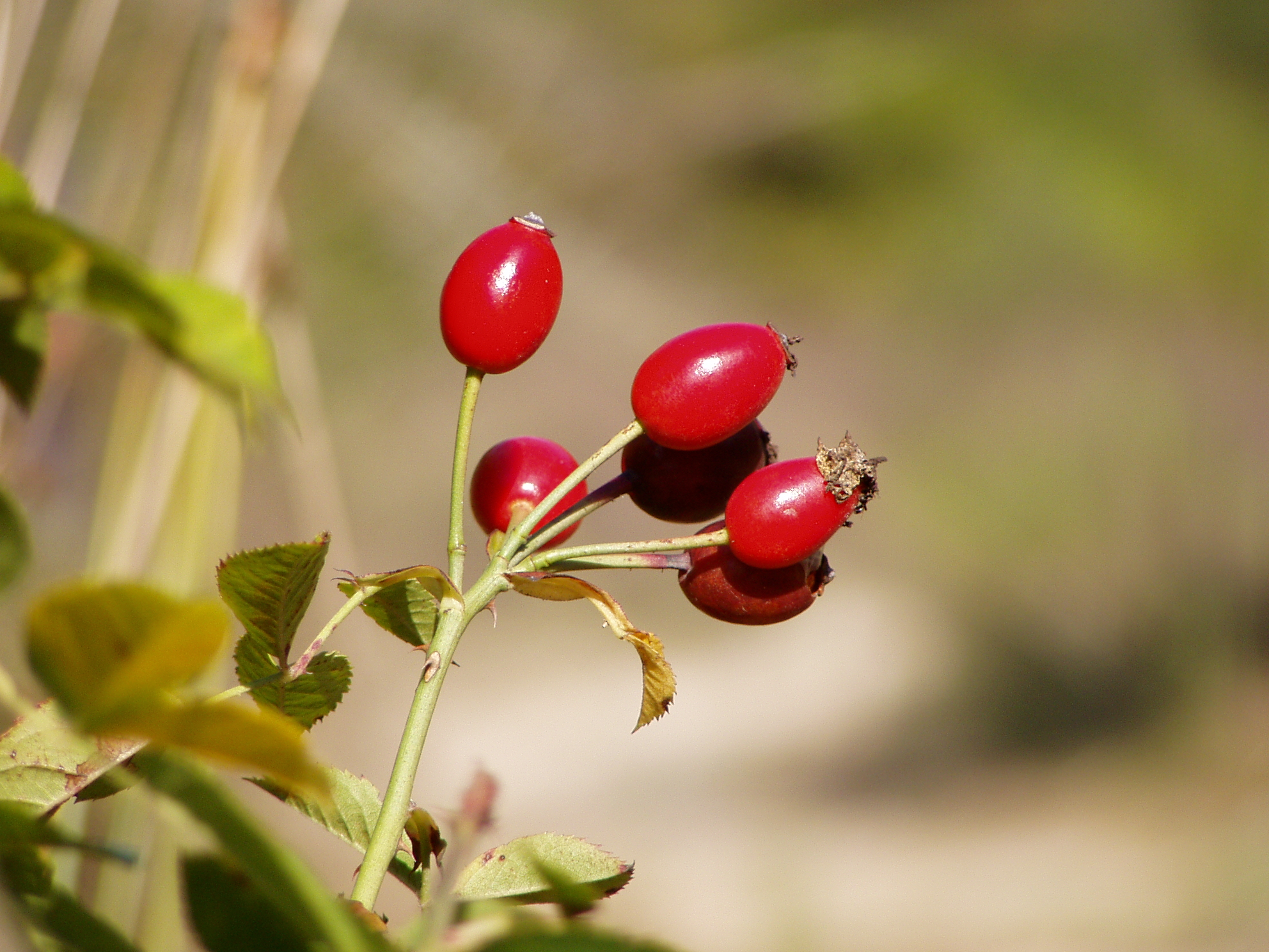 Dog Rose